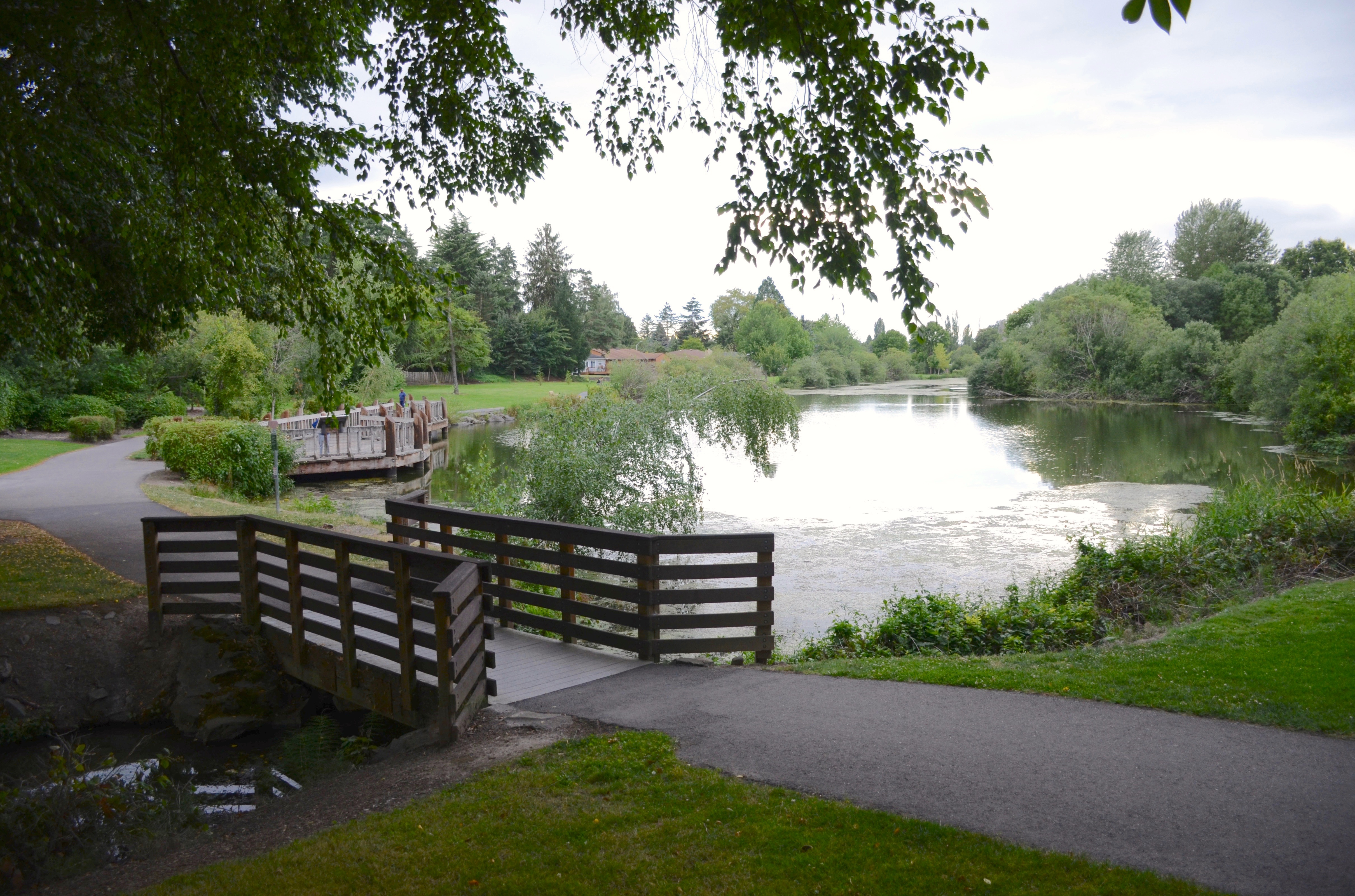 Commonwealth Lake, in the Cedar Hills neighborhood of Washington County, Oregon, viewed from its east end (near Huntington Avenue). This is in the west-side suburbs of Portland.